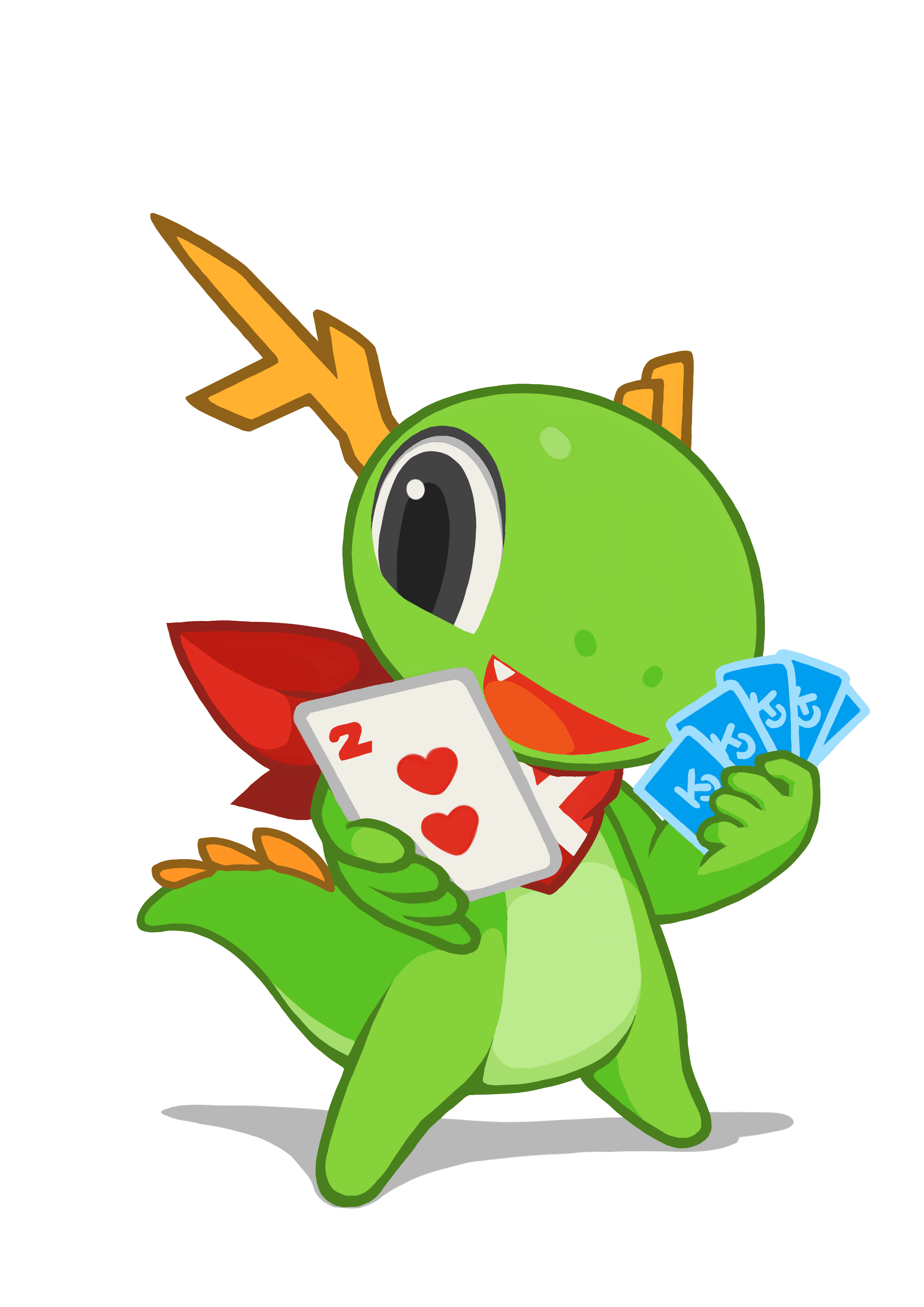 KDE mascot Konqi for game applications.